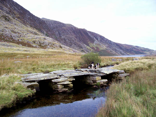 Old Bridge, Afon Eigiau Remnants of trackways and the old Eigiau Railway abound in this area. This bridge crosses the river near to the point where it entered the impounded lake, but with the lowering of the water it is now up a long, meandering course in a mass of rushes.